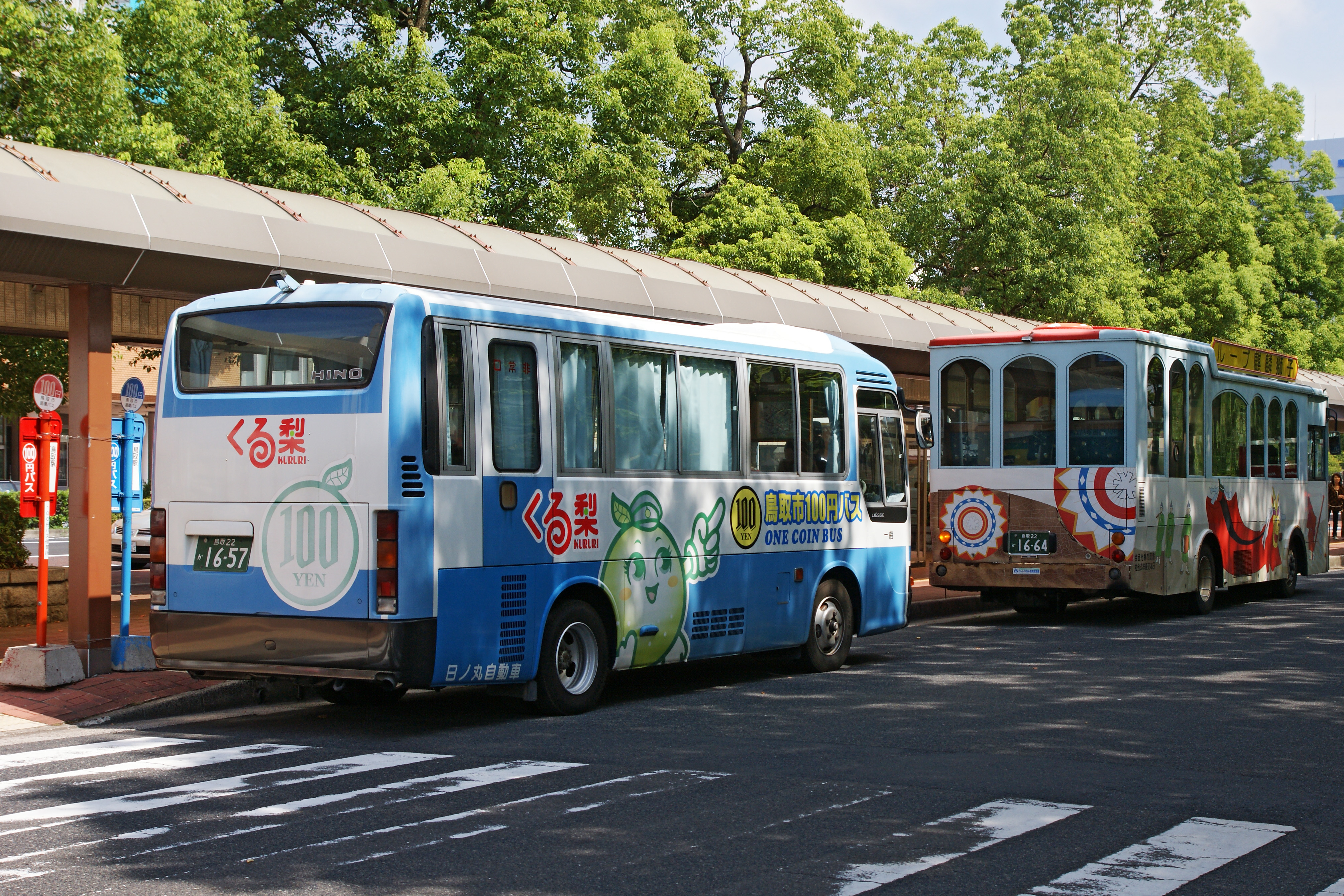 Tottori Station Bus Terminal in Tottori, Tottori prefecture, Japan